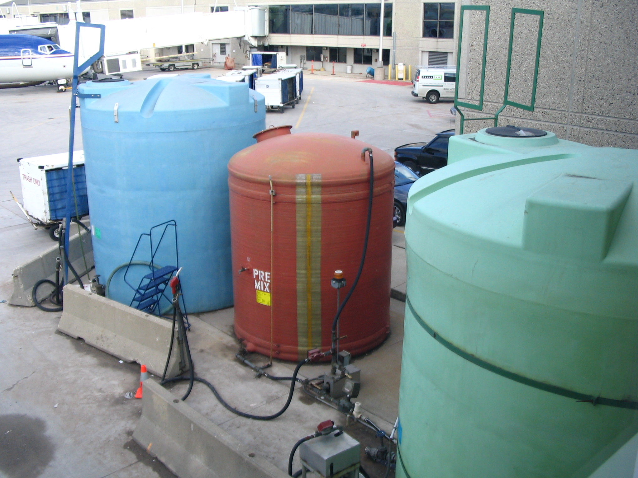 It was taken from the window of a terminal in Milwaukee Airport. The tanks presumably contain deicing fluids and perhaps runoff. Definitely not fuel.